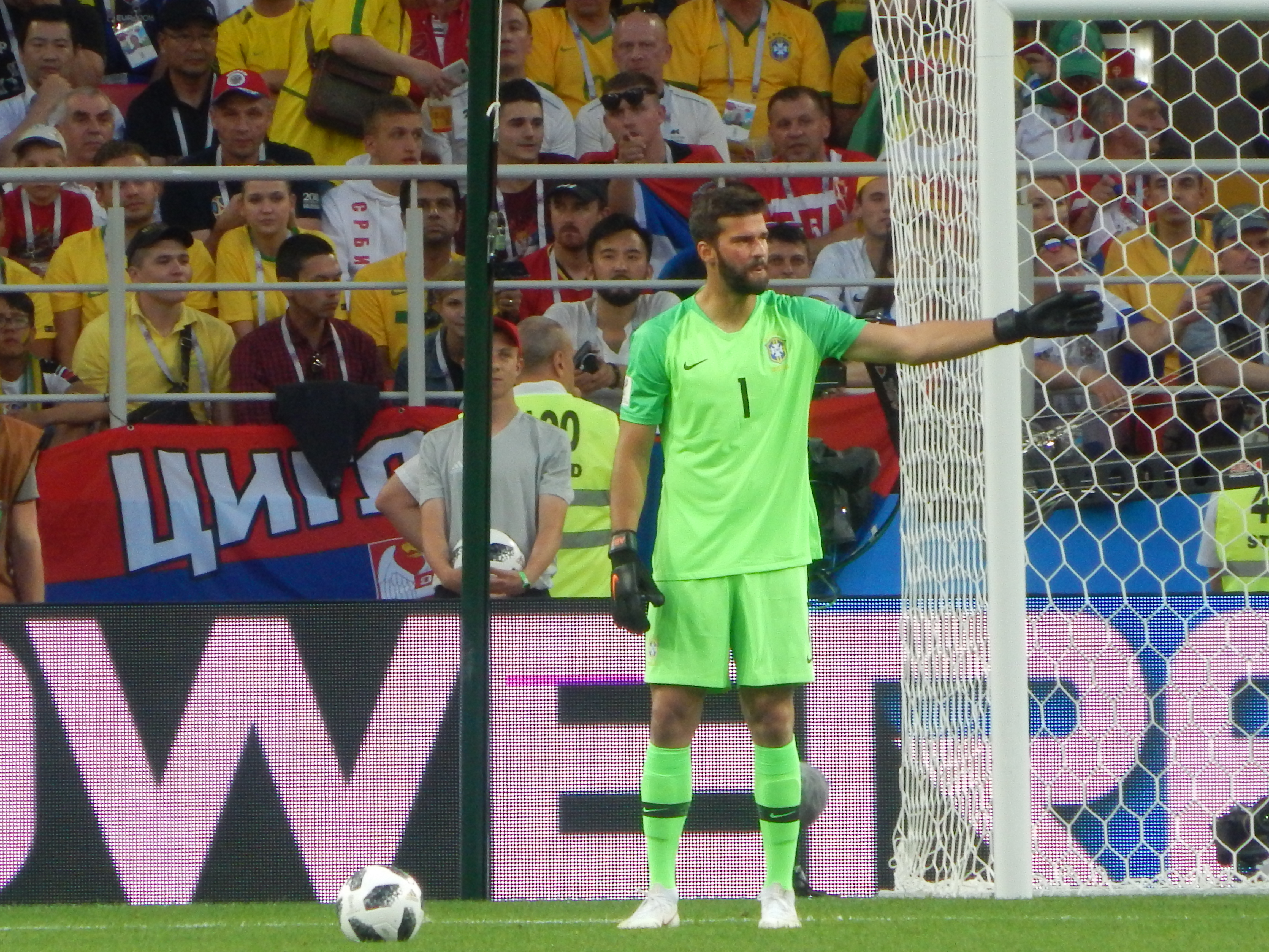 FIFA World Cup 2018, Group E, Serbia vs. Brazil